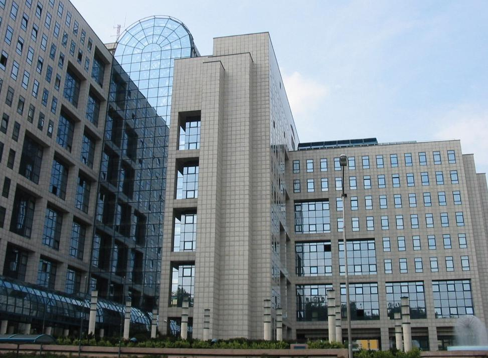 P.Stone Category:Novi Sad images